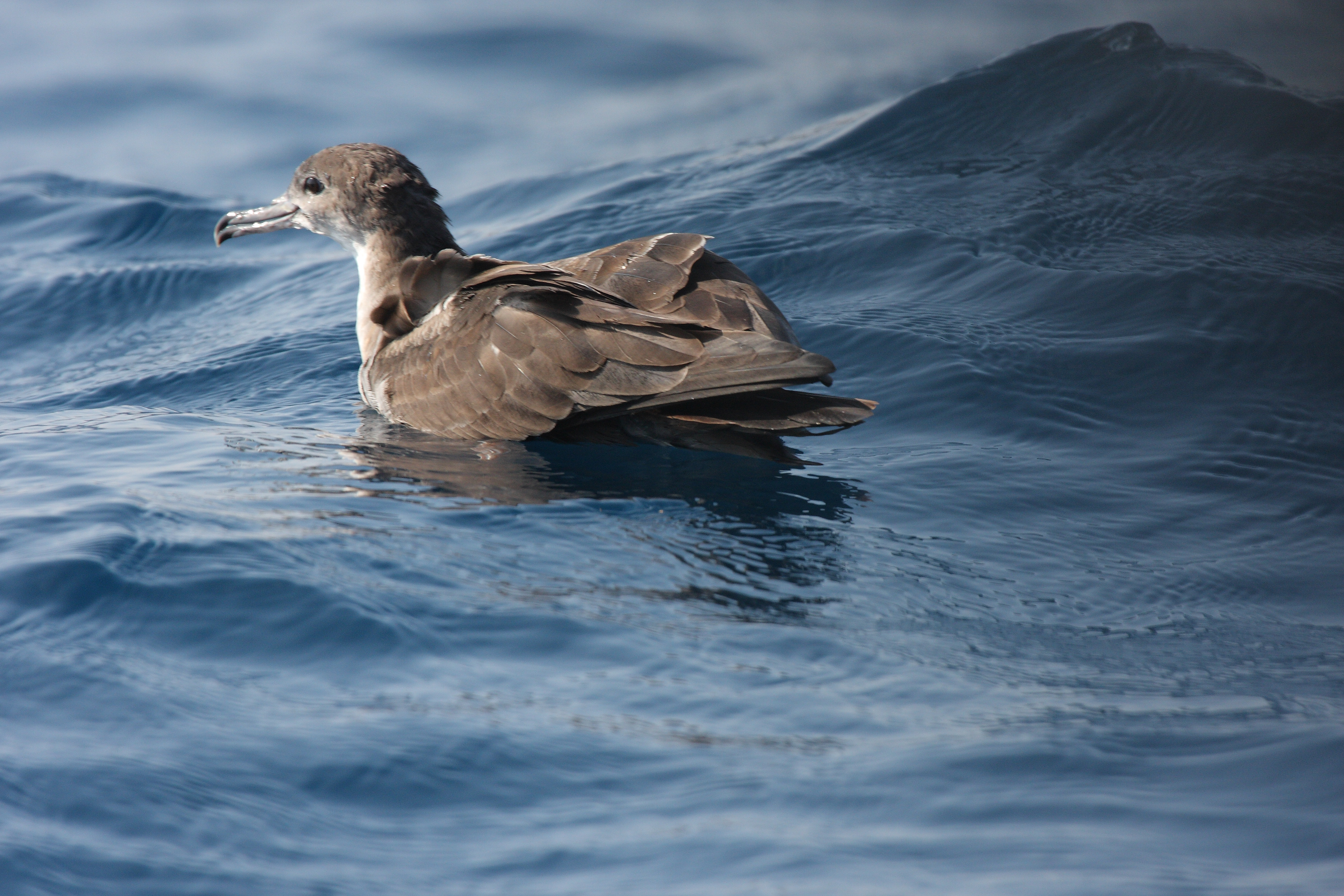 Wedge-tailed Shearwaters (Puffinus pacificus)